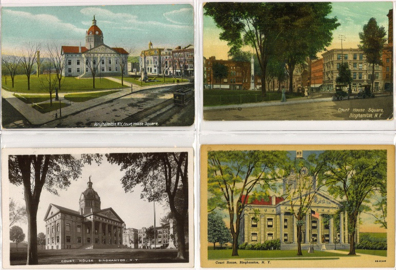 Binghamton Court House on old post cards